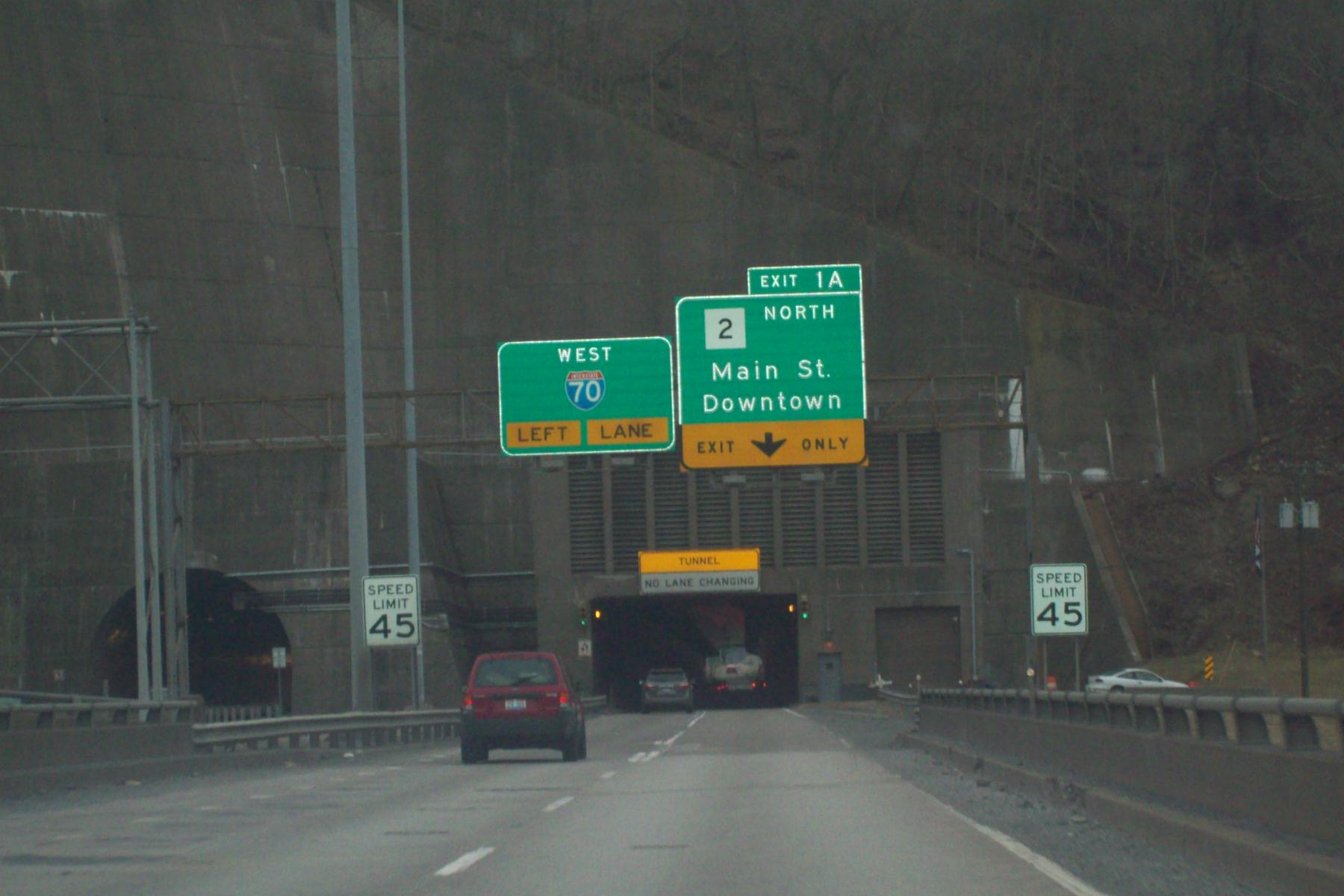 Approaching the Wheeling Tunnel traveling west on Interstate 70 in West Virginia.